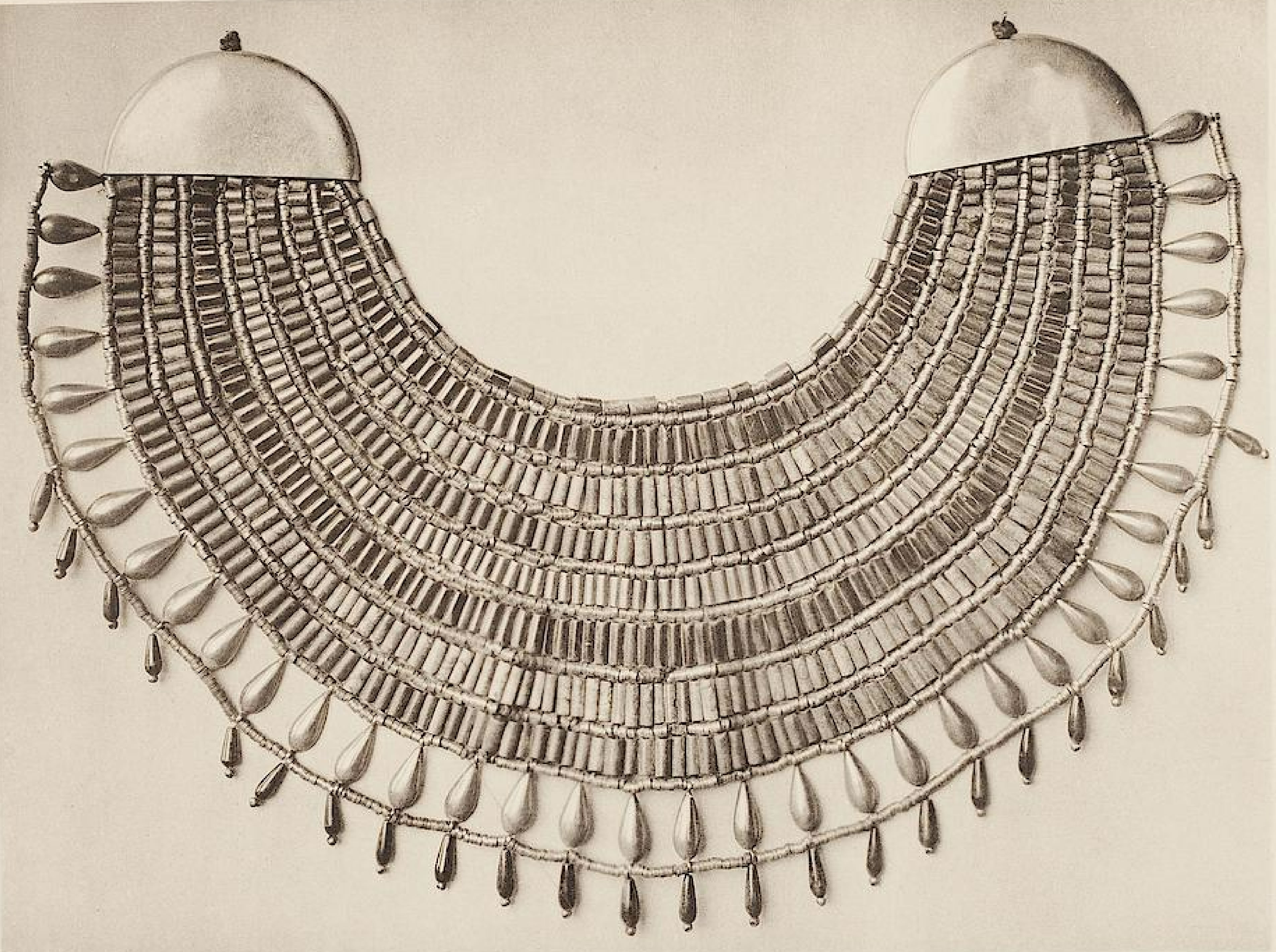 Broad collar of the king's daughter Itaweret, found in her tomb at Dahshur, Egypt